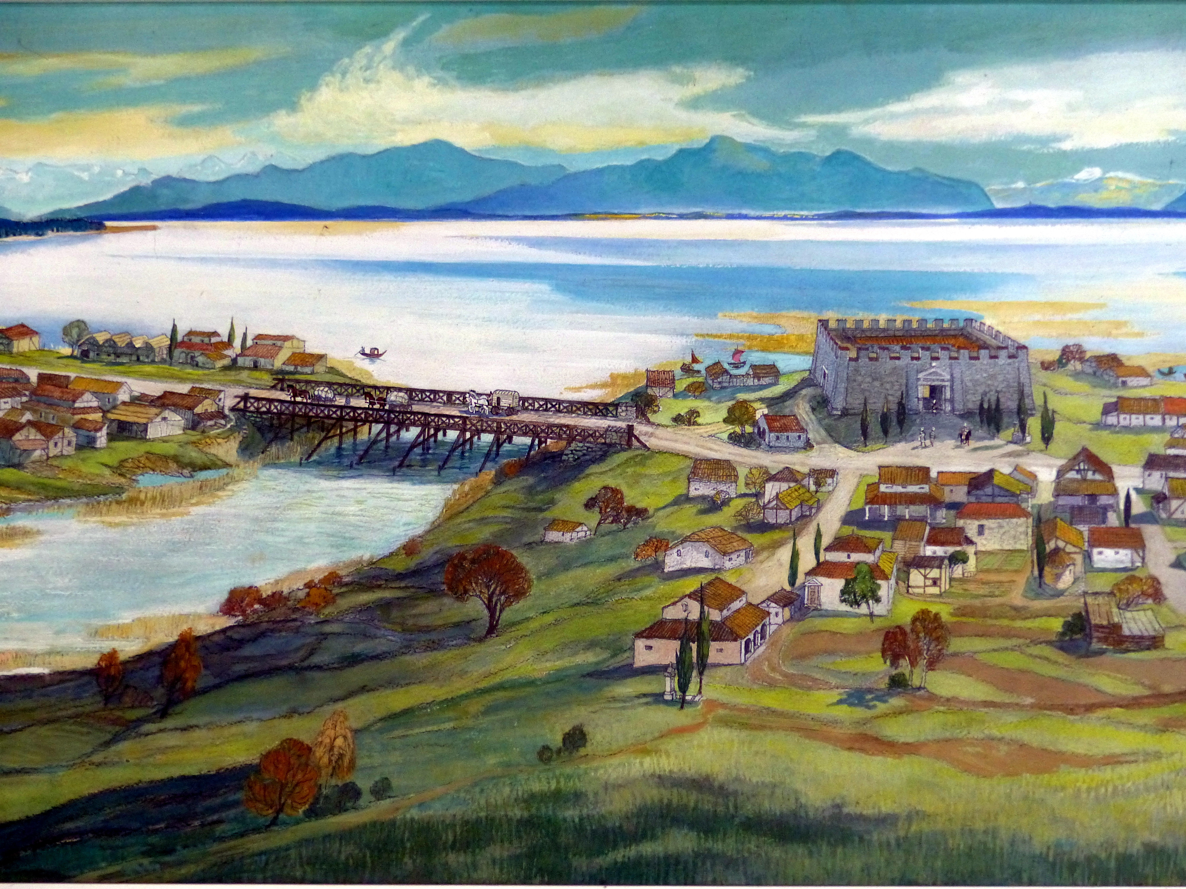 Seebruck (Upper Bavaria). Ancient Roman museum Bedaium: Reconstruction of the ancient Roman settlement of Bedaium.